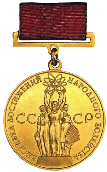 Gold medal of VDNKh